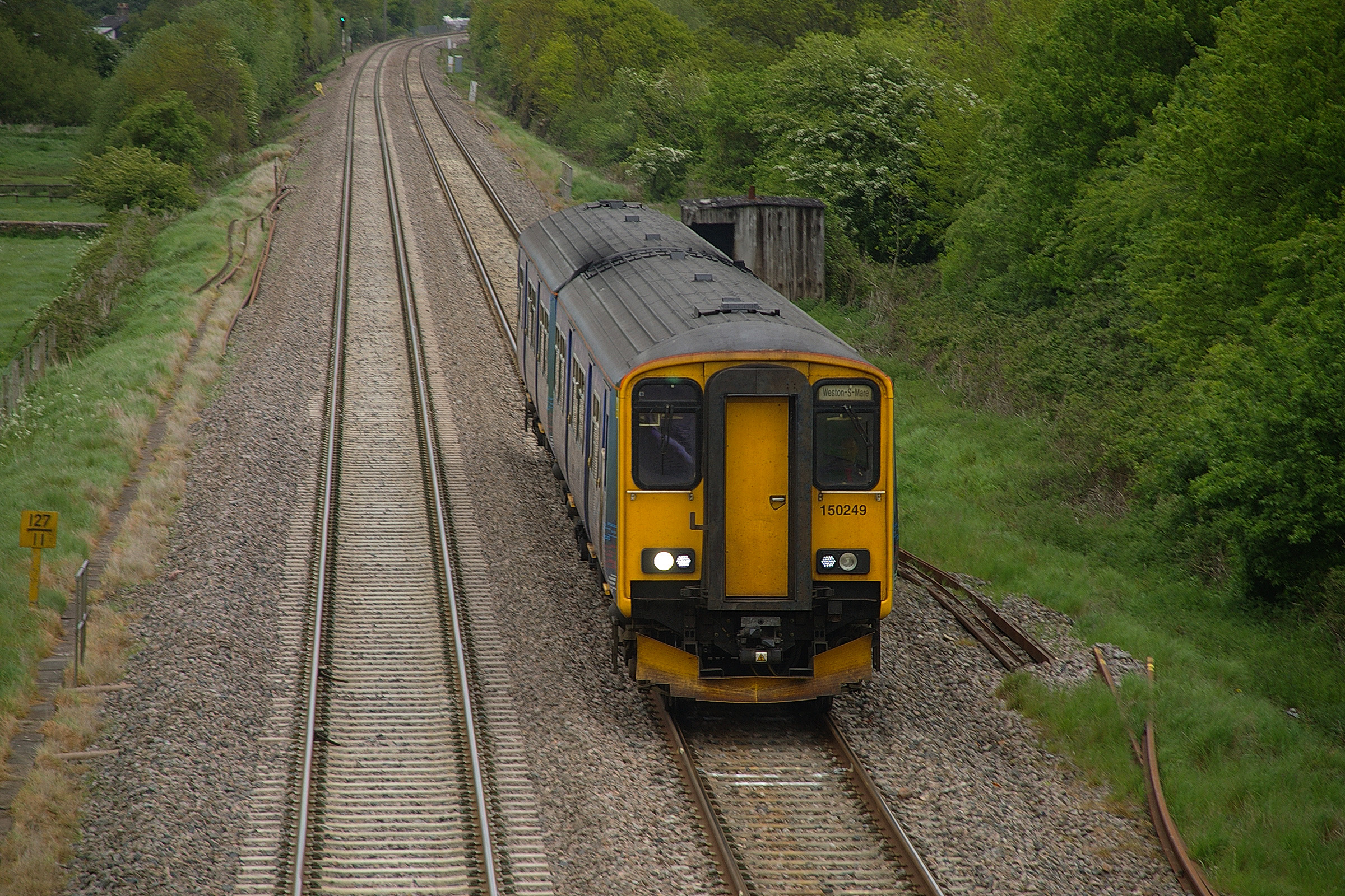 First Great Western 150249 approaches the Chelvey Lane bridge near Nailsea on the Bristol to Taunton Line.